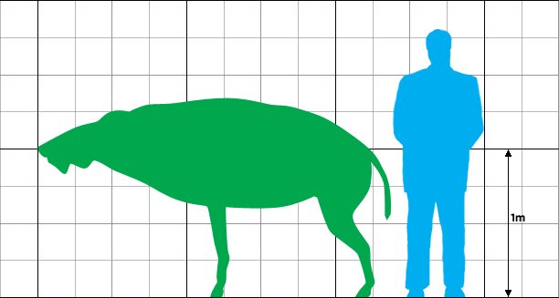 Size comparison between Entelodon deguilhemi and a human male, with 1m background grid for scale. Figures are in silhouette.